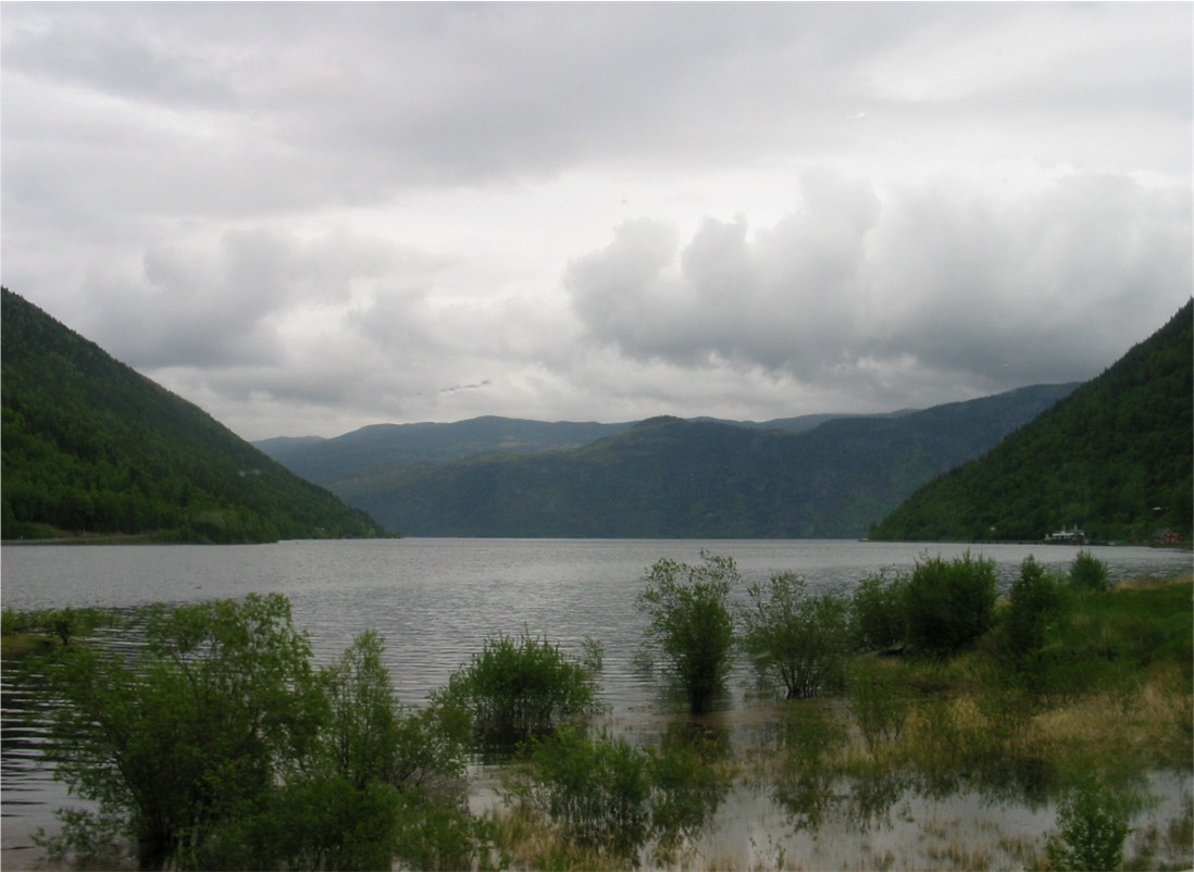 Lake Tinnsjå in Telemark (Norway)